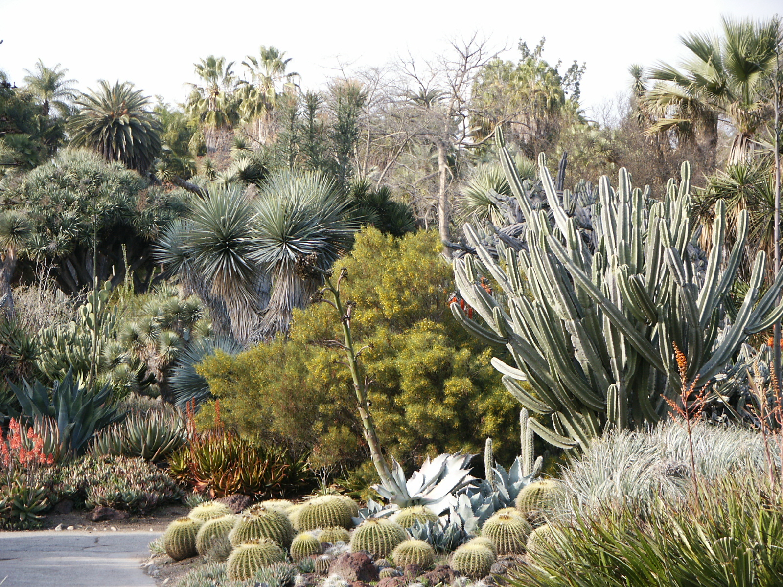 Huntington Library Desert Botanical Garden in afternoon after and during rain - Various cactus and succulent plants